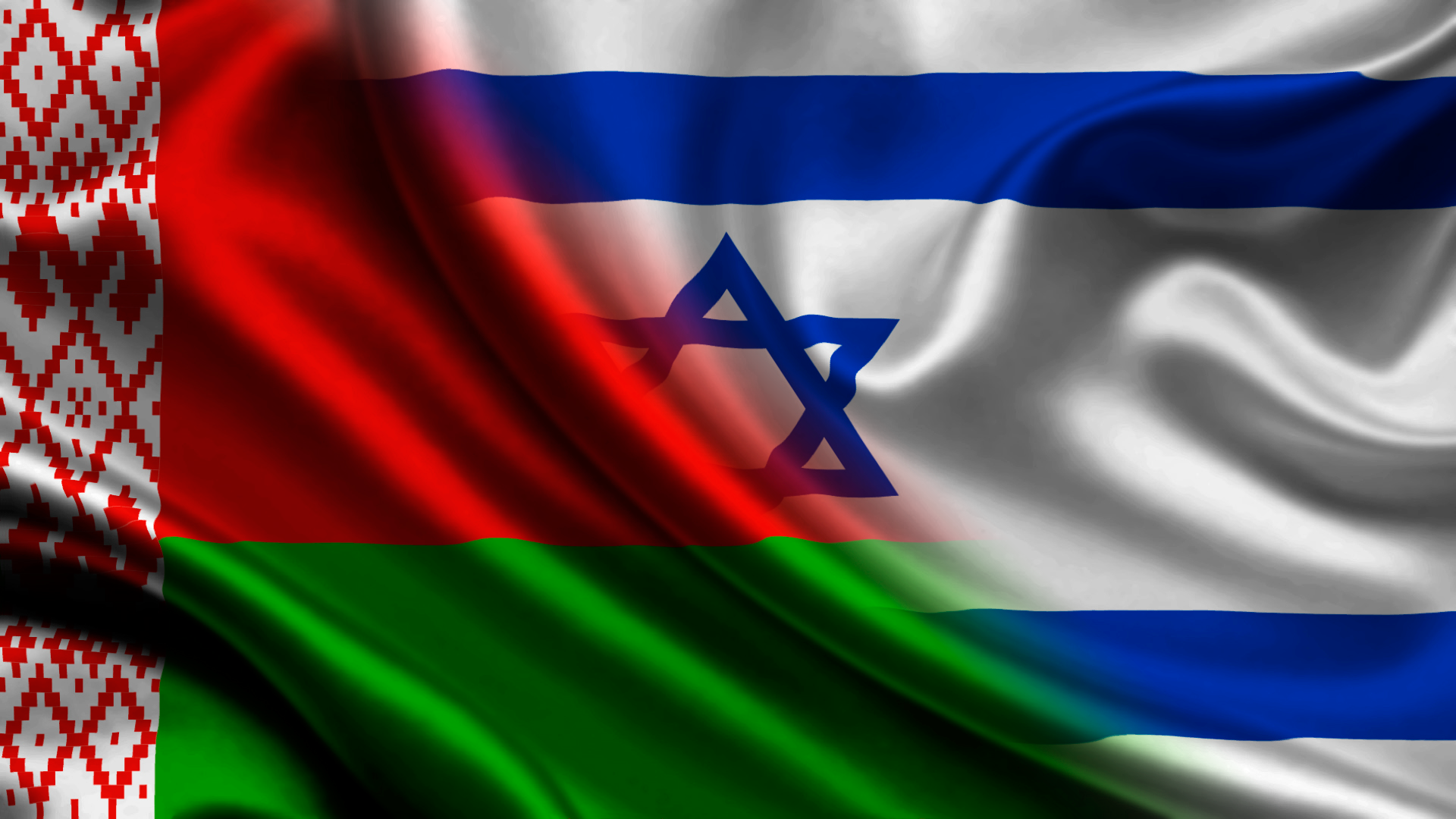 Rebublic of Belarus and Israel Flags